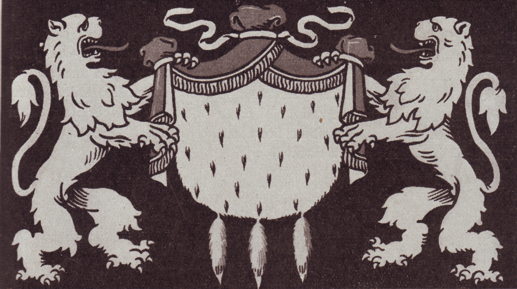 Guild blazon of the furriers of Frankfurt am Main, Germany